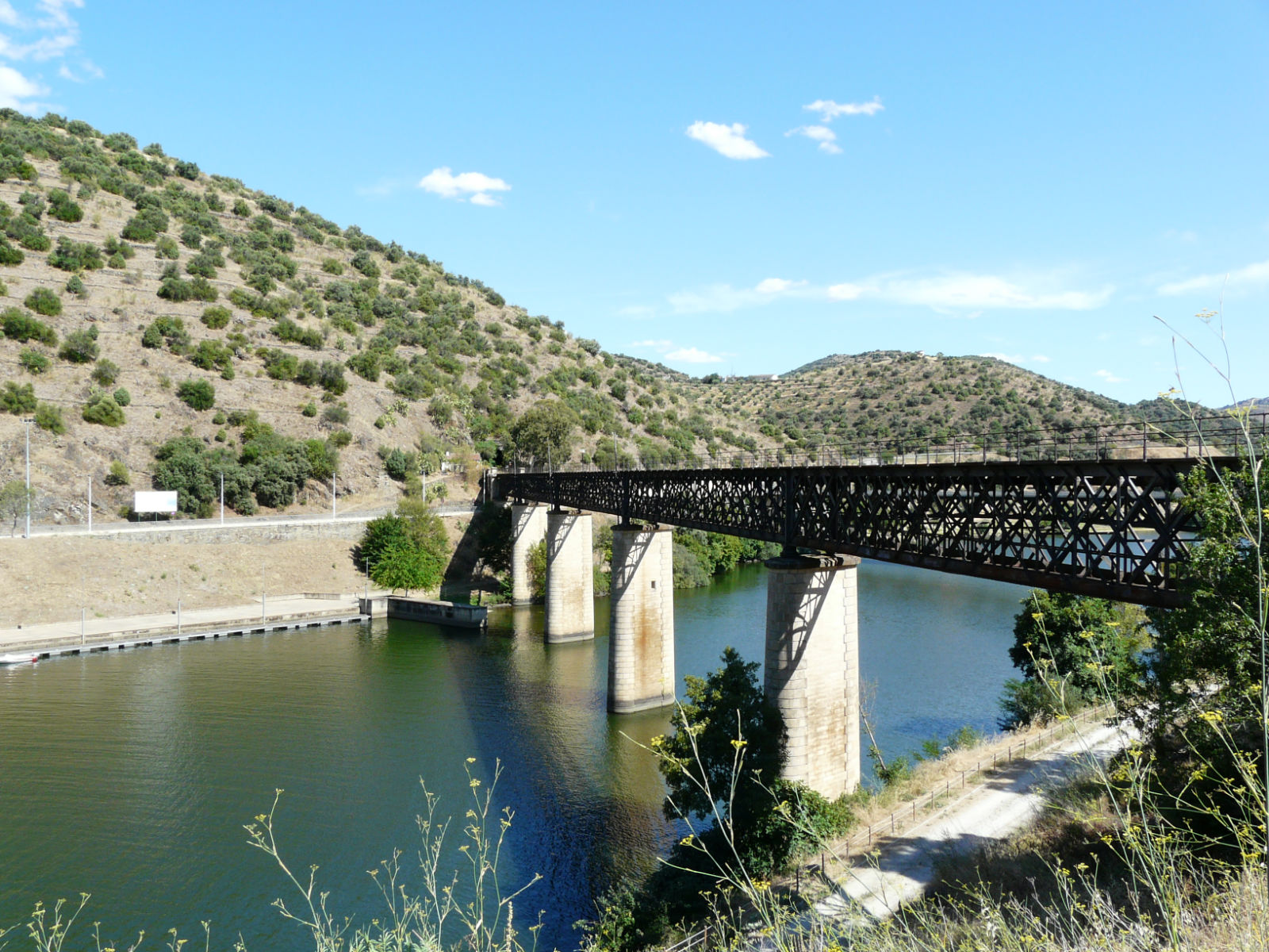 This file was uploaded for Wiki Loves Monuments in Portugal with the unique identifier 8983641.